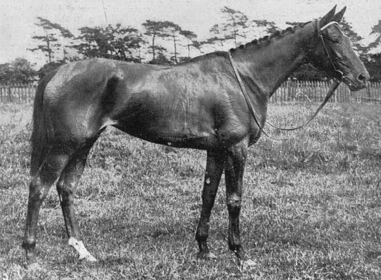 Pogrom, winner of the 1922 Epsom Oaks.